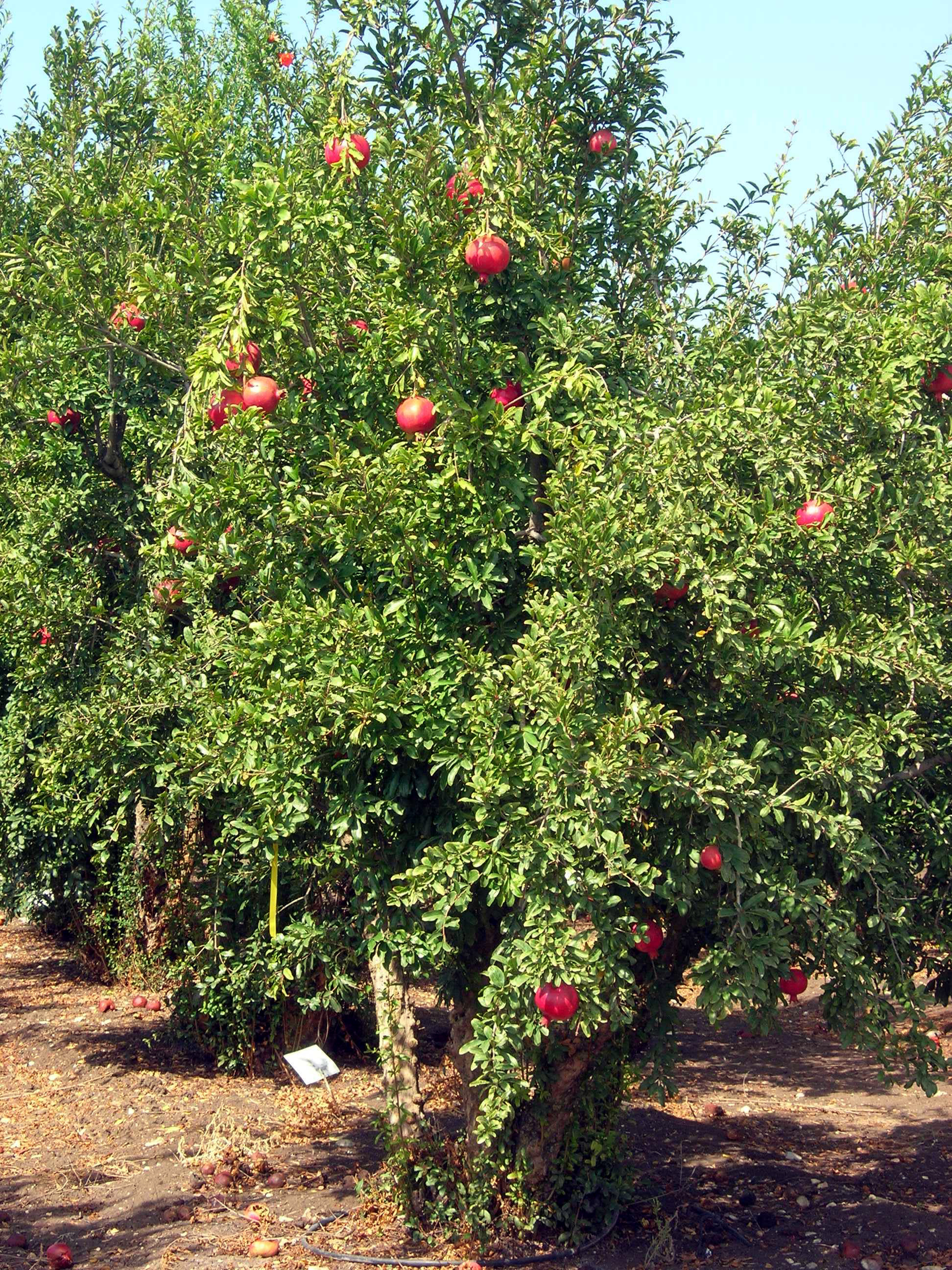 Description =Grenadier en Israel Source =Photo taken by Remi Jouan Date =Octobre 2006 Author =Remi Jouan